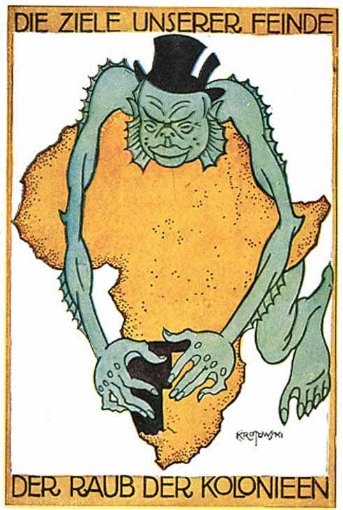 German fears of South West Africa takeover. Illustration by Stephan Krotowski shows a top hat-wearing sea creature making a grab for German South-West Africa (now Namibia and part of Botswana). Caption reads: 'Our enemies' aims - theft of the colonies' ('Die Ziele unserer Feinde - der Raub der Kolonien')